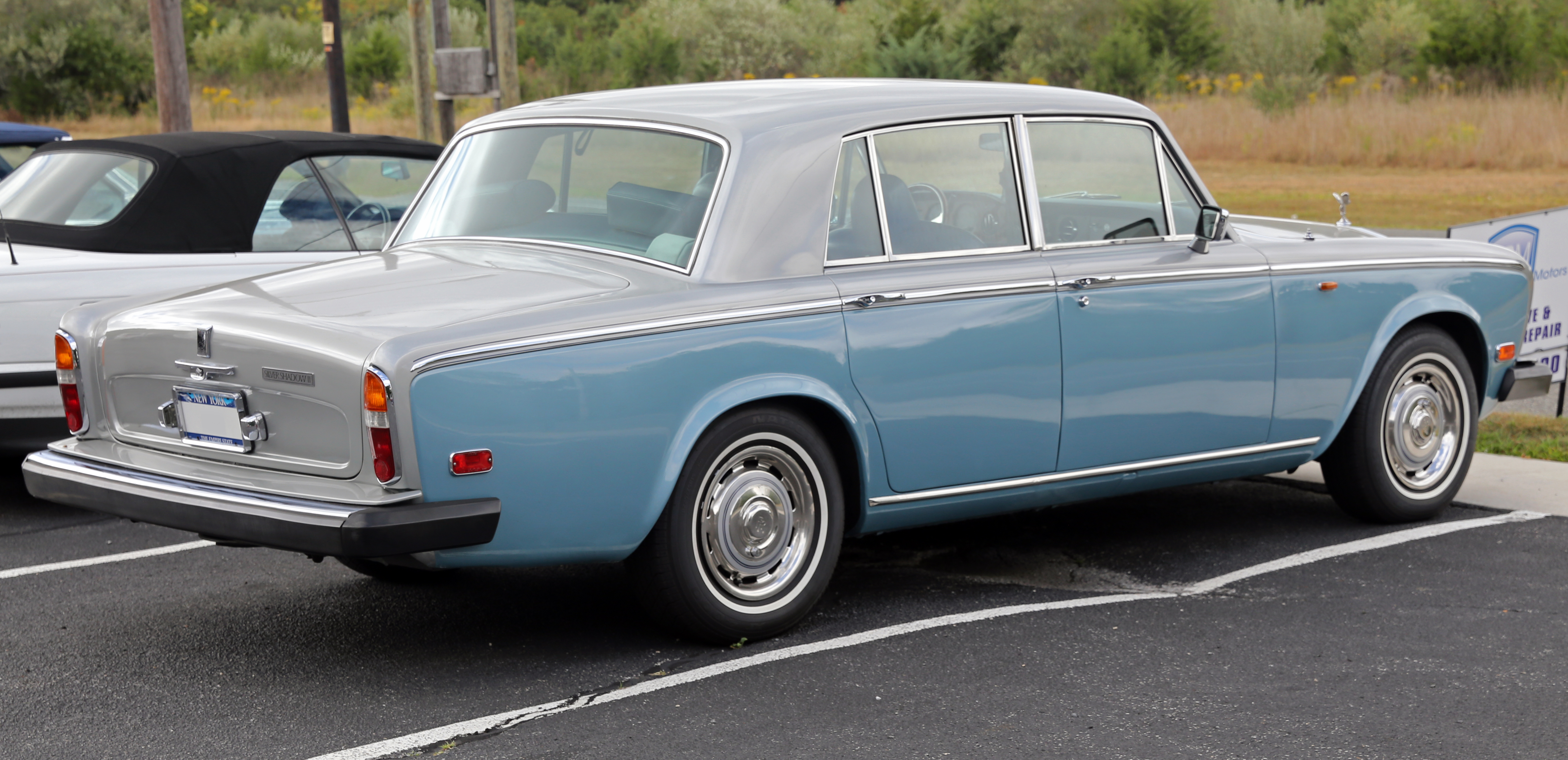 A 1980 Rolls-Royce Silver Shadow II, US market version. Lovely colour combination.